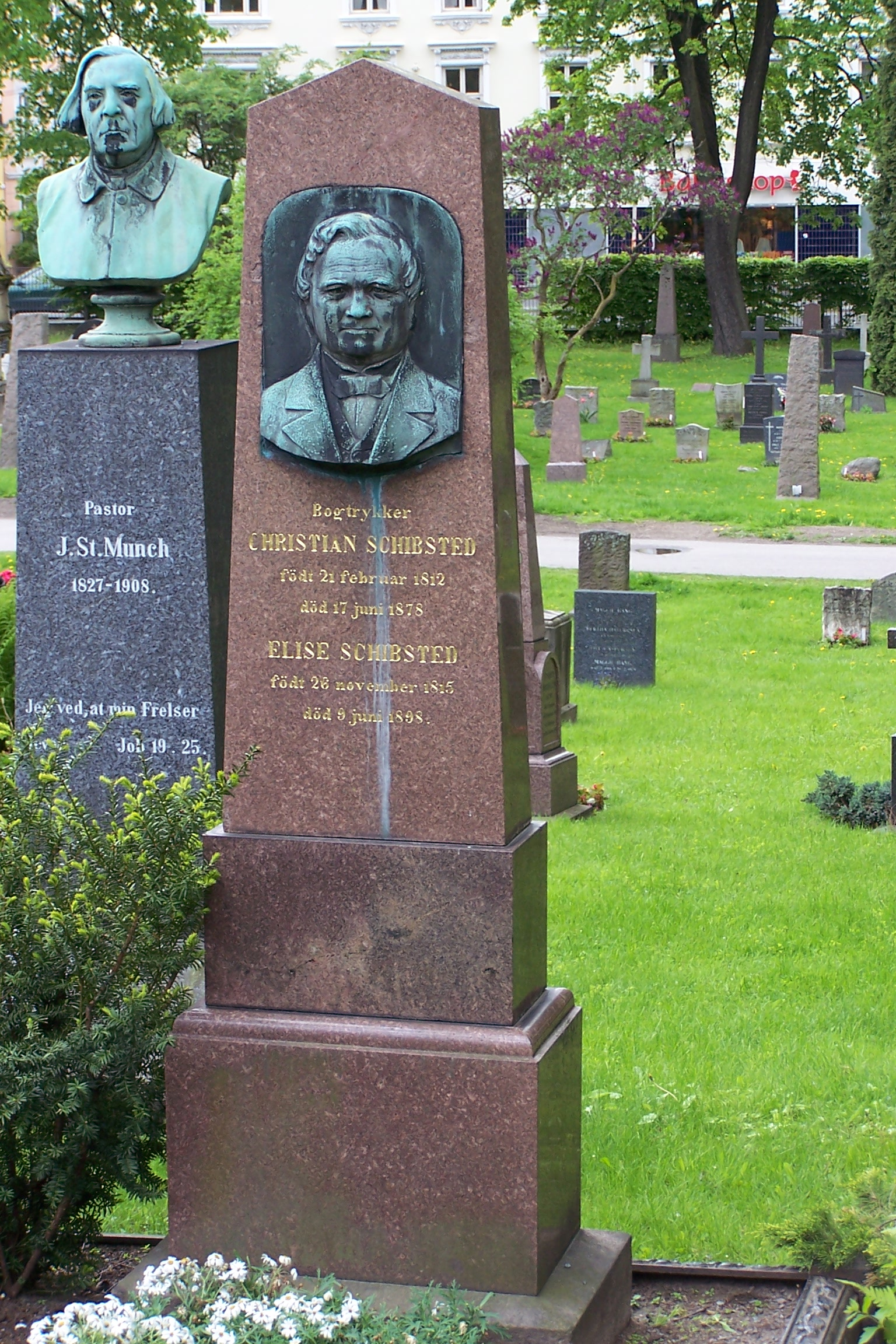 Tomb of Christian Schibsted at Vår Frelsers gravlund, Oslo. Portraitrelief by Jo Visdal, 1910